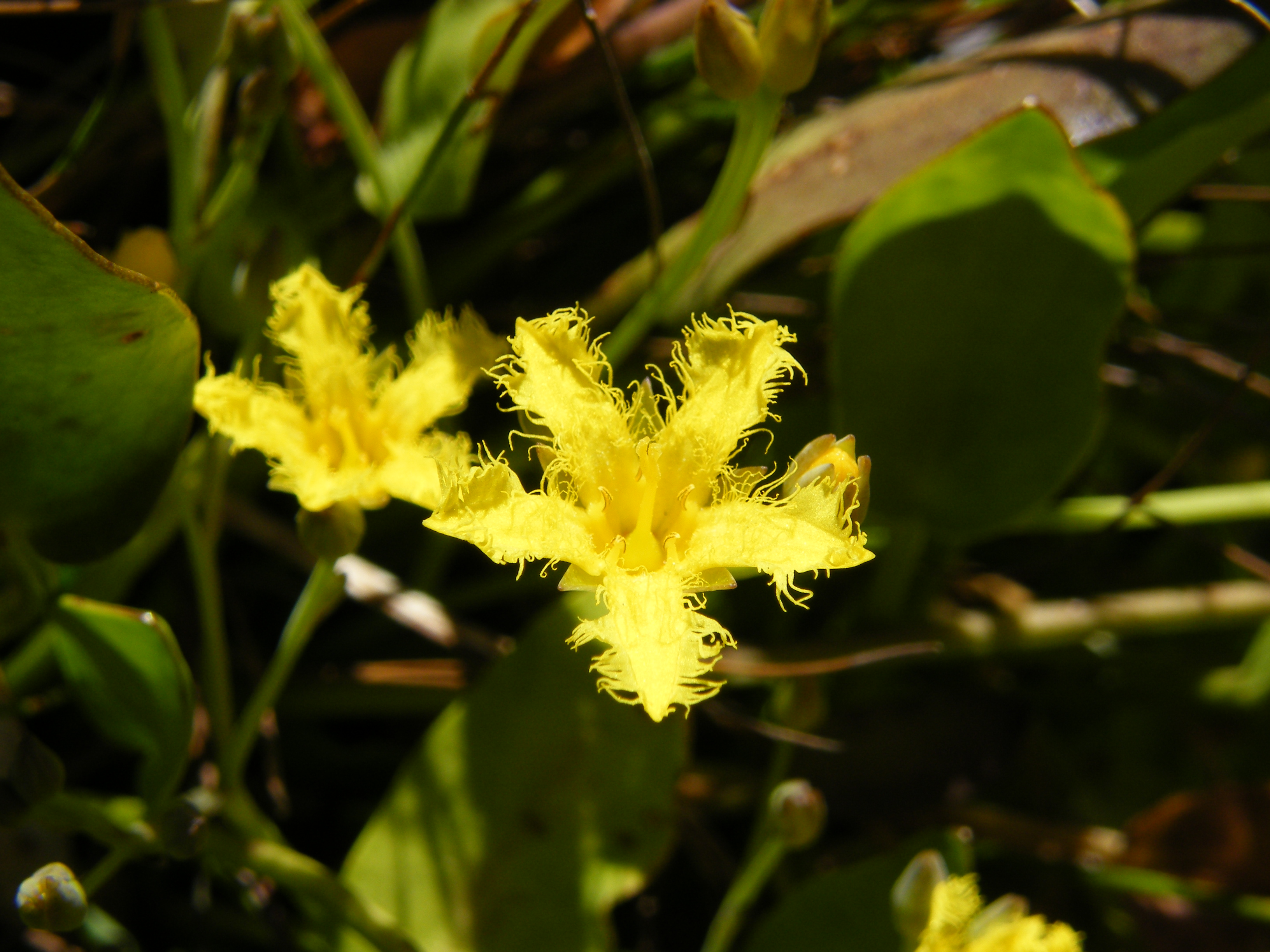 Cape Bogbean